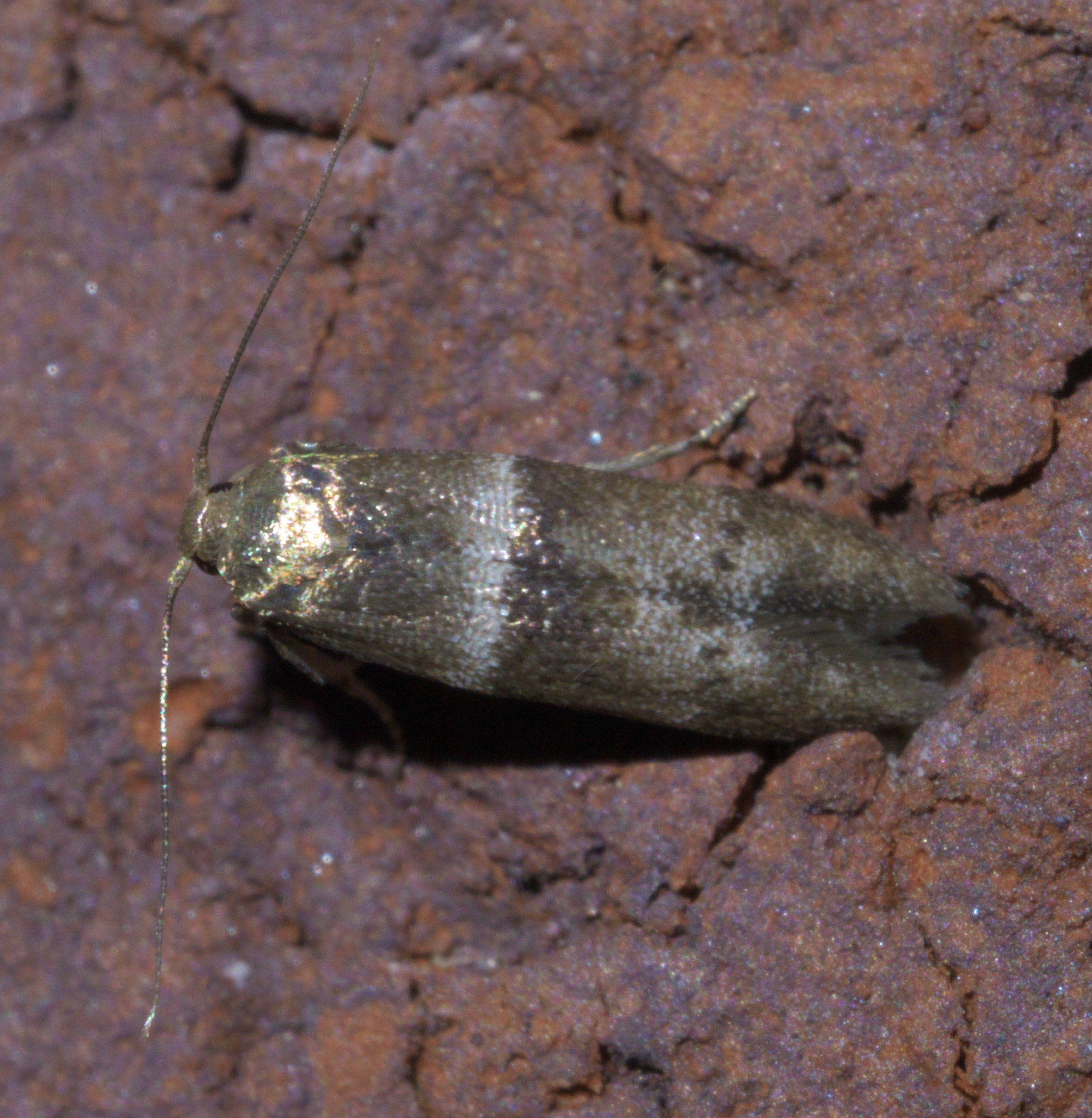 Pigritia, Subfamily: Scavenger Moths, Size: 6.2 mm, ID Confidence: 88